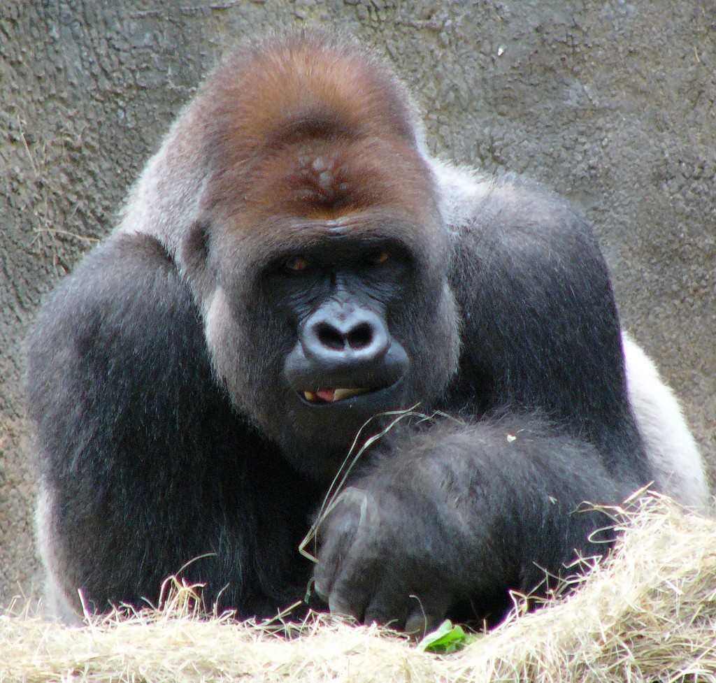 FtWorthZoo Gorilla P1020581v1